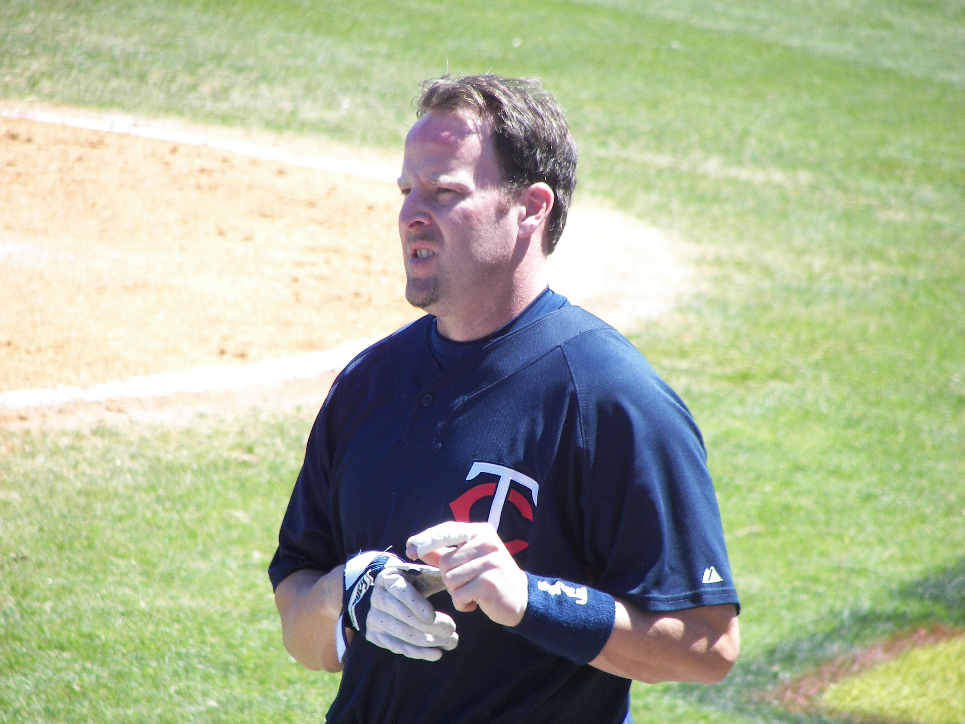 Minnesota Twins catcher Mike Redmond during a Twins/Pittsburgh Pirates spring training game at McKechnie Field in Bradenton, Florida.